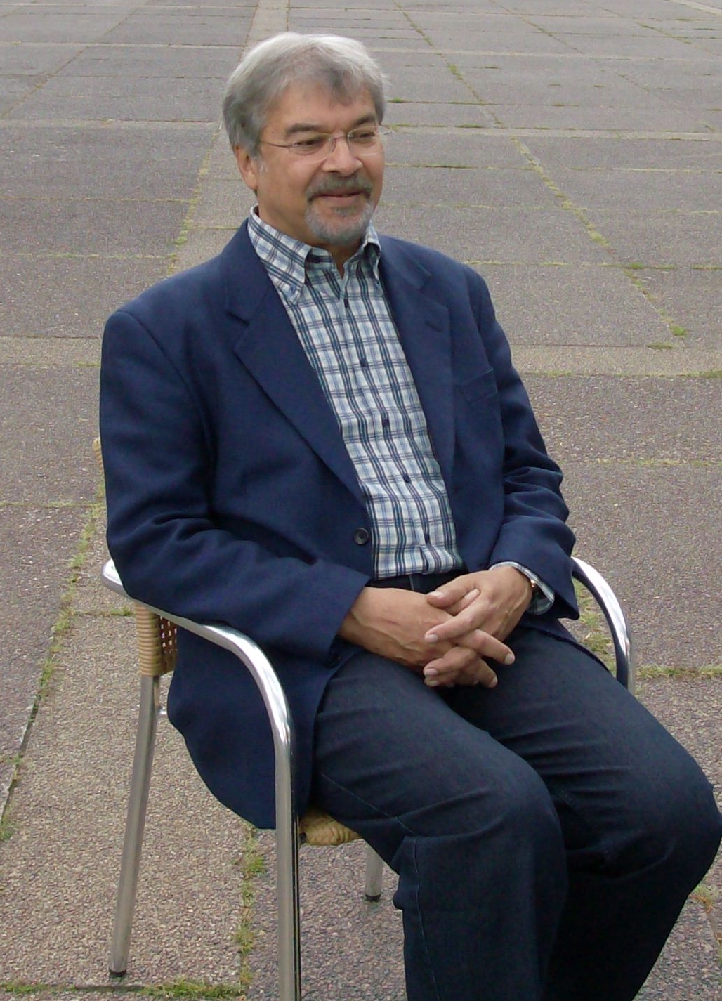 Frederic Friedel, chess journalist